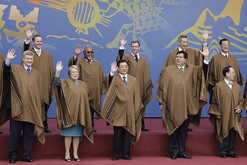 PERU, LIMA. Participants of the APEC Forum.Front row, l-r: Stephen Harper (Canada), Michelle Bachelet (Chile), Hu Jintao (People's Republic of China), Alan García (Peru), Donald Tsang (Hong Kong, China) Rear row, l-r: John Key (New Zealand), Michael Somare (Papua New Guinea), Dmitry Medvedev (Russia), Lee Hsien Loong (Singapore), Lien Chan (Chinese Taipei)